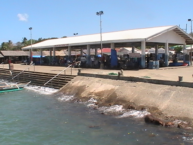 The pier and fish market in Concepcion, Iloilo